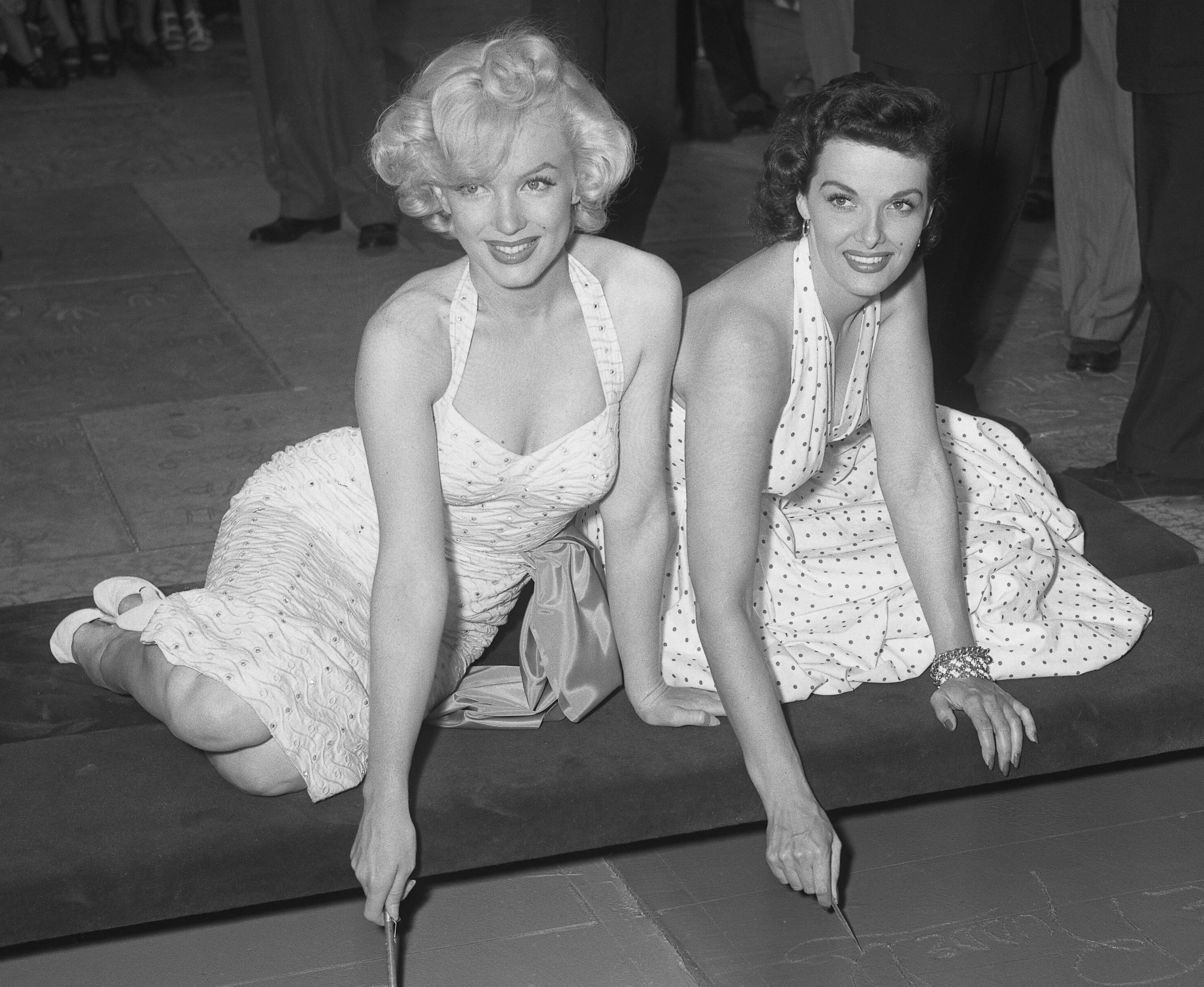 Marilyn Monroe and Jane Russell putting signatures, hands and foot prints in wet concrete at Chinese Theater in Los Angeles, Calif., 1953